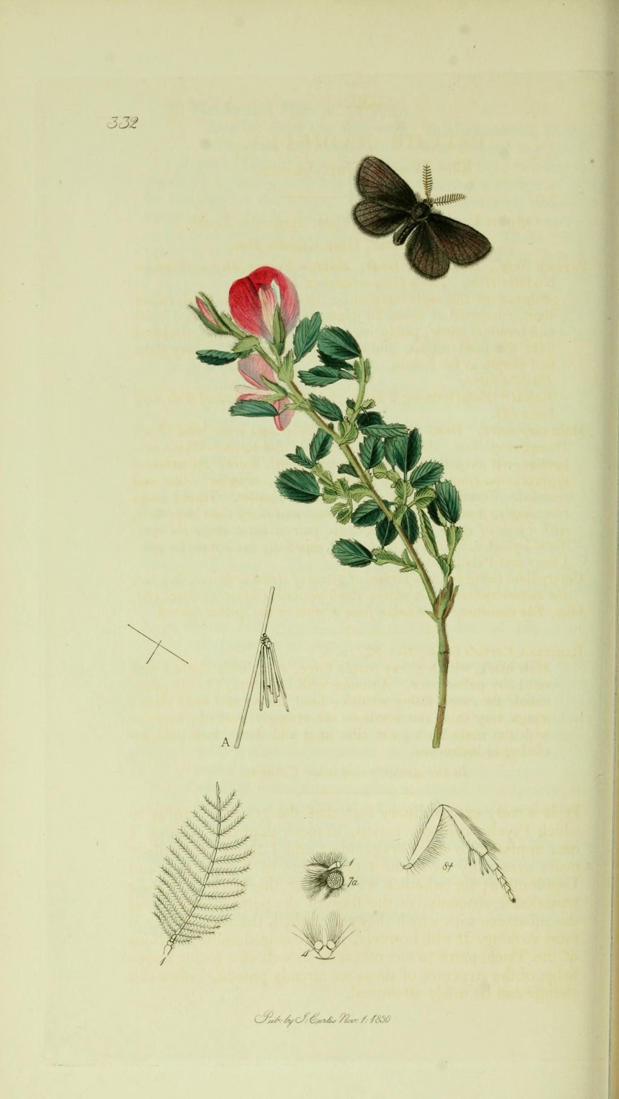 An illustration from British Entomology by John Curtis. Psyche radiella or Epichnopteryx plumella (Woolly Case-bearer, Transparent Sweep).